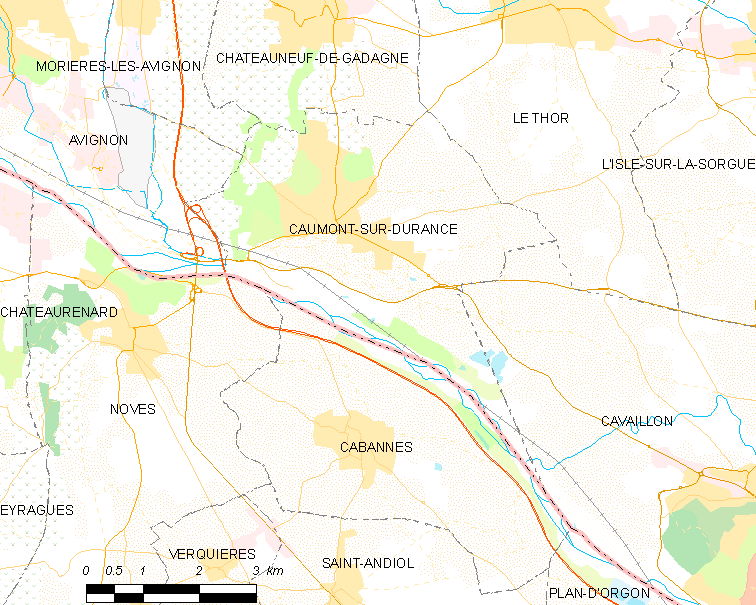 Map of French municipality Caumont-sur-Durance